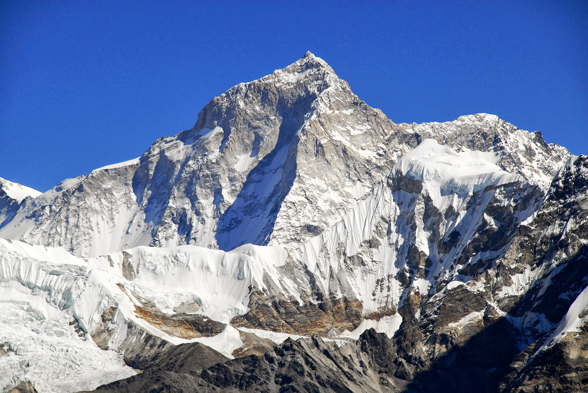 7th Day. Makalu is the fifth highest peak in the world (8485m). View from the Mera pass.